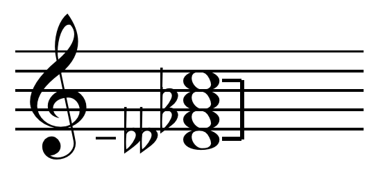 Diesis.